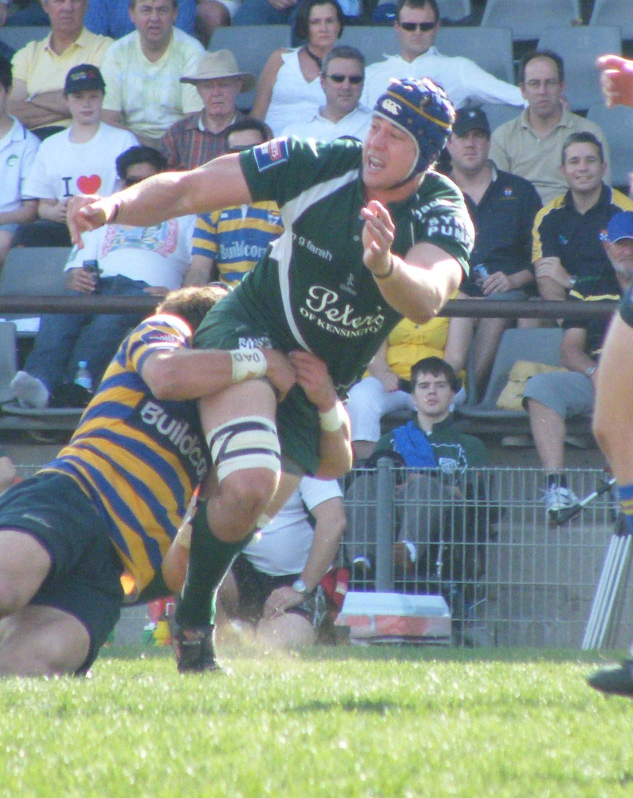 Randwick Rugby Player